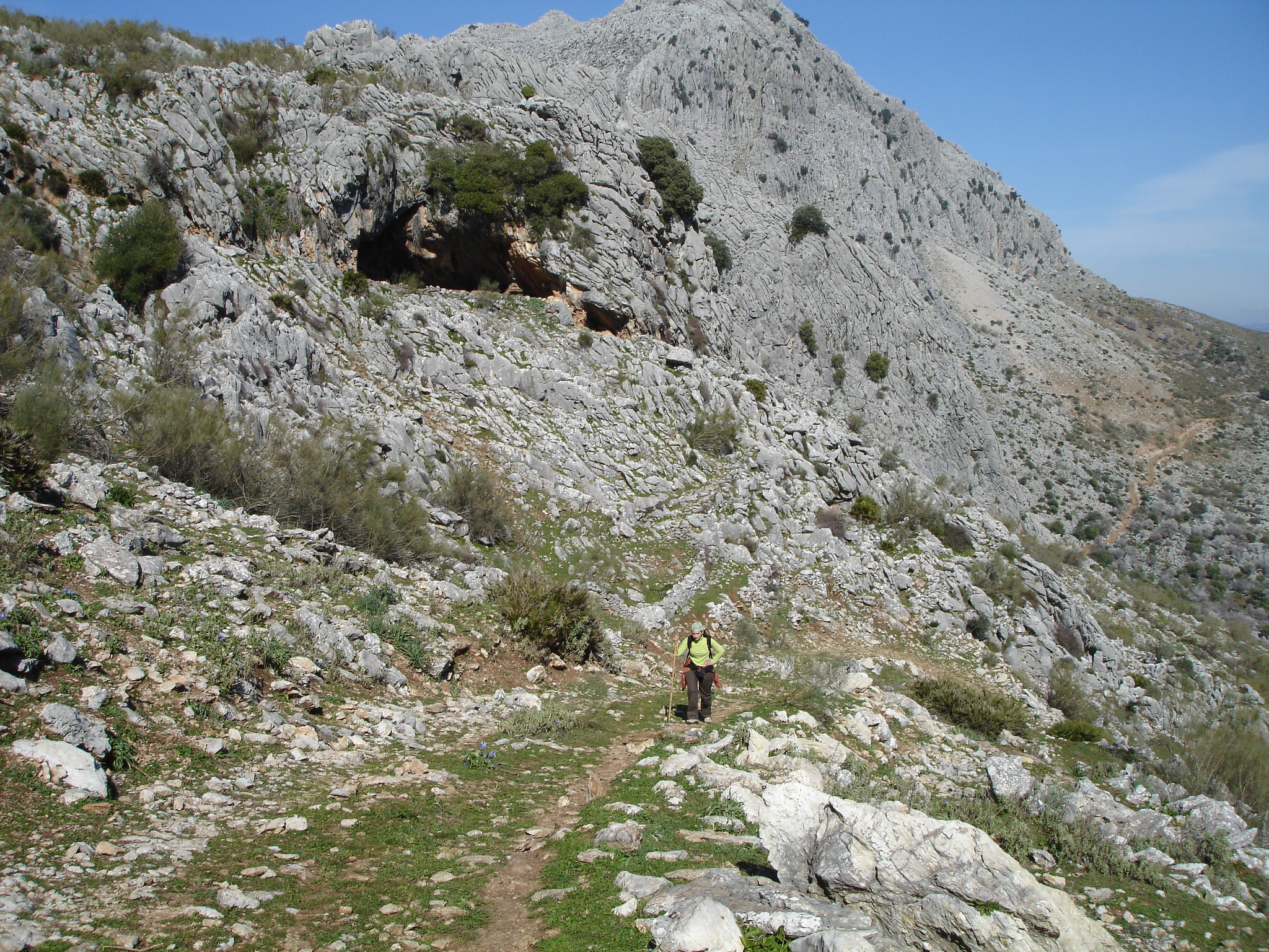 Walking from Benaojan to Cortes, Andalusia (Spain)